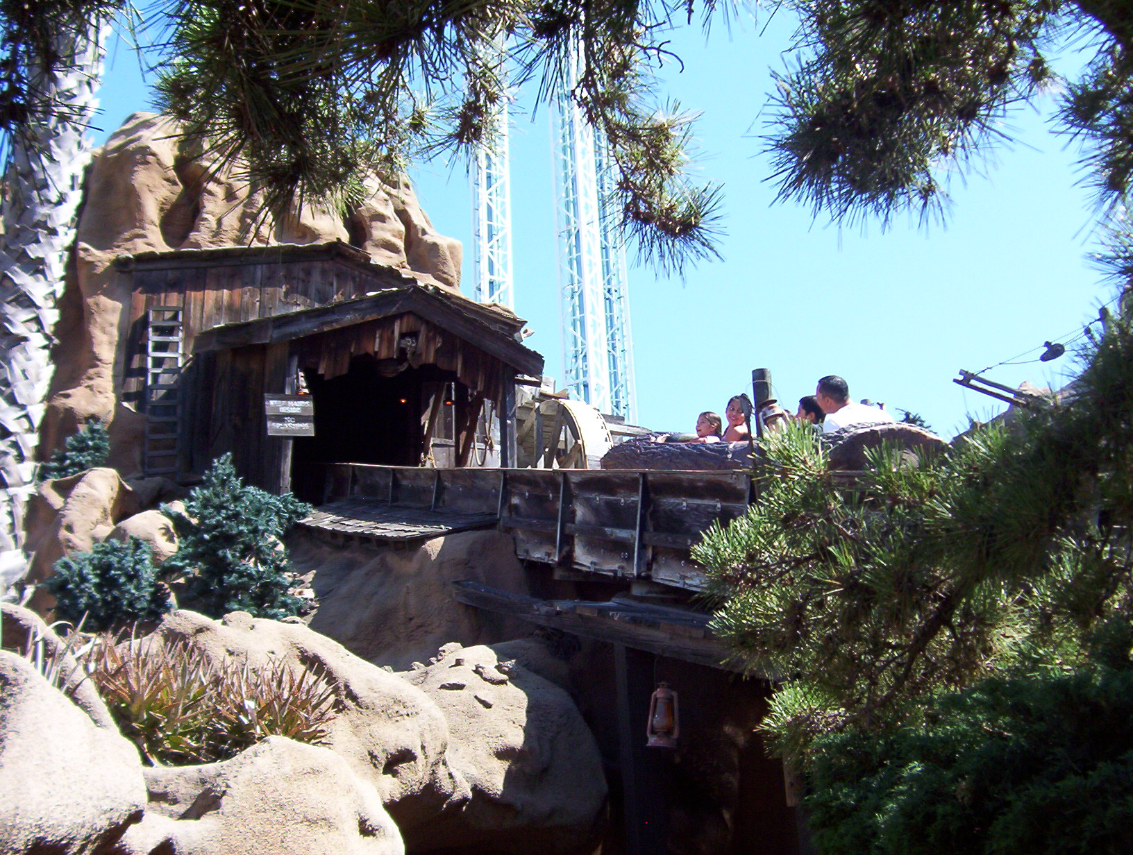 Log Ride at Knott's Berry Farm